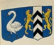 Arms of Jean Racine (left) and his wife Catherine de Romanet (right), Armorial général de France, 1696-1700